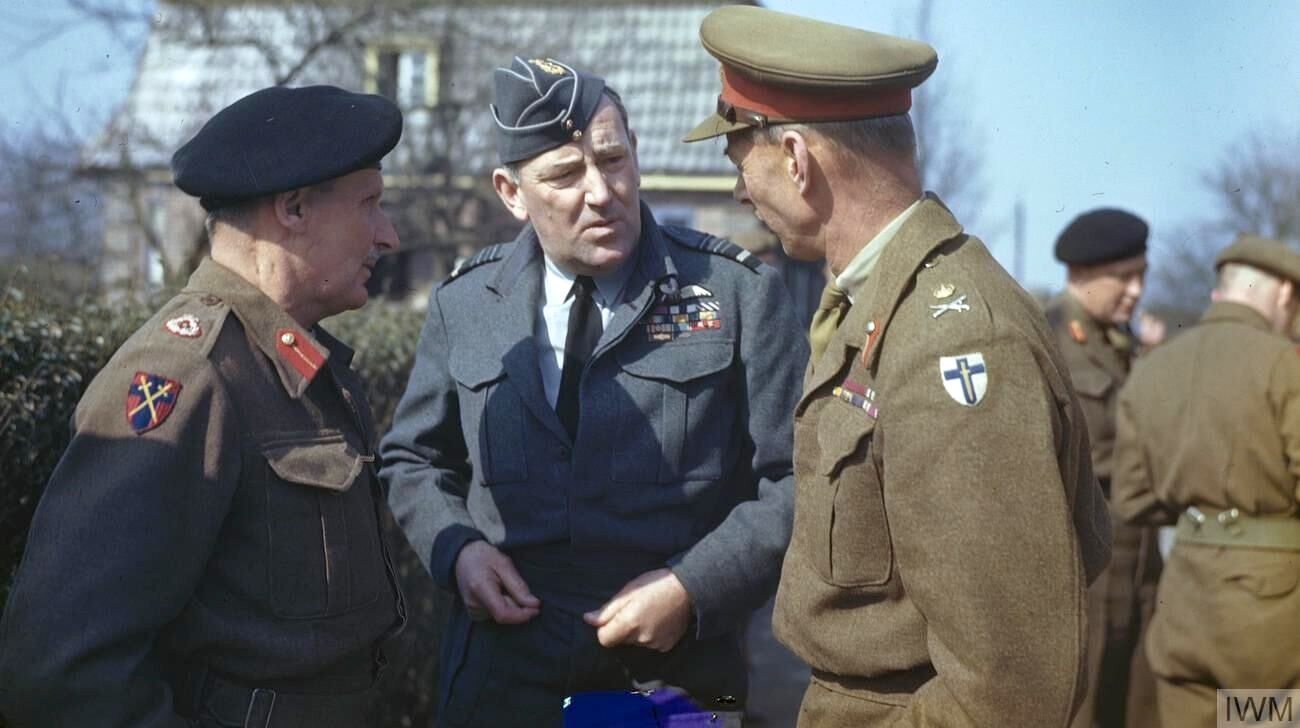 IWM caption : PREPARATIONS FOR "OPERATION VARSITY", THE CROSSING OF THE RHINE, AT WALBECK, GERMANY, 22 MARCH 1945. The Commander of the 21st Army Group, Field Marshal Sir Bernard Montgomery (left), the Commander of the 2nd Tactical Air Force, Air Marshal Sir Arthur Coningham (centre) and the Commander of the British 2nd Army, Lieutenant General Sir Miles Dempsey, talking after a conference held in a small German village attended by all Senior Officers of the 21st Army Group and 2nd Tactical Air Force. At the conference Field Marshal Montgomery gave the order for the 2nd Army to begin the assault crossing of the Rhine.